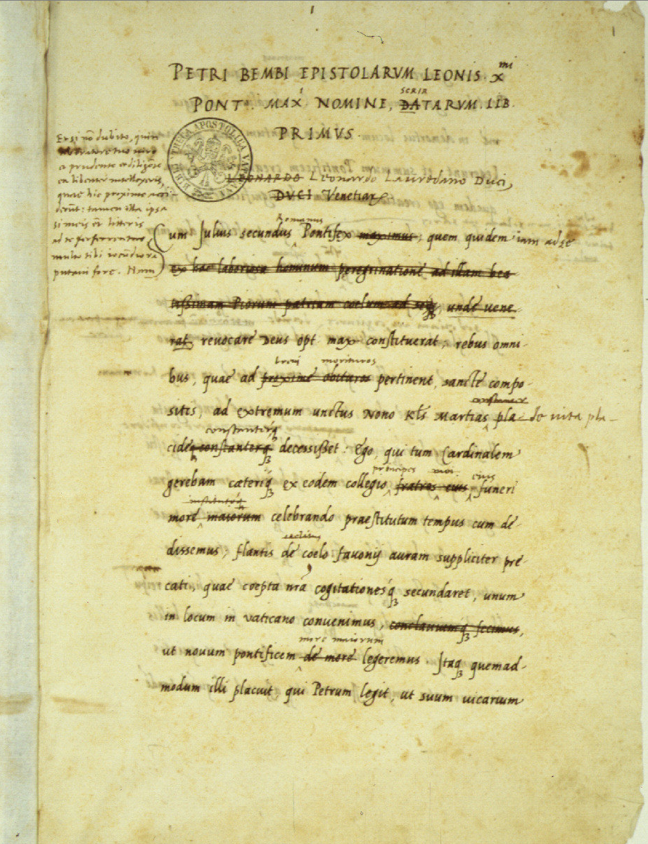 Letters Written for Leo X